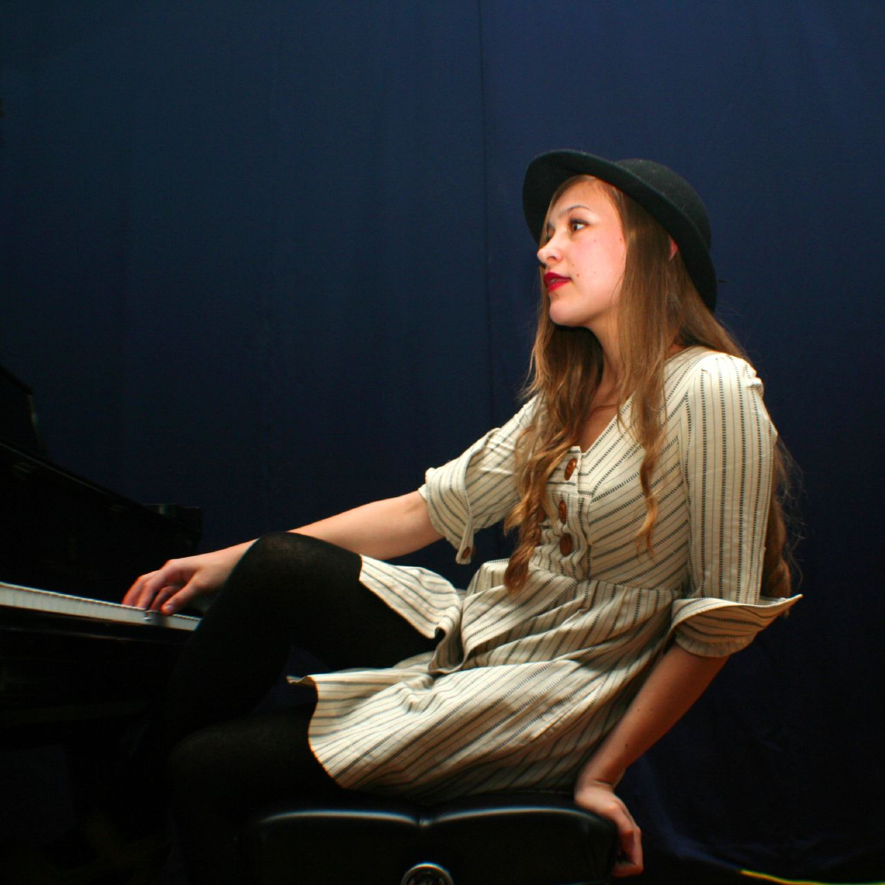 at bill callahan fader party